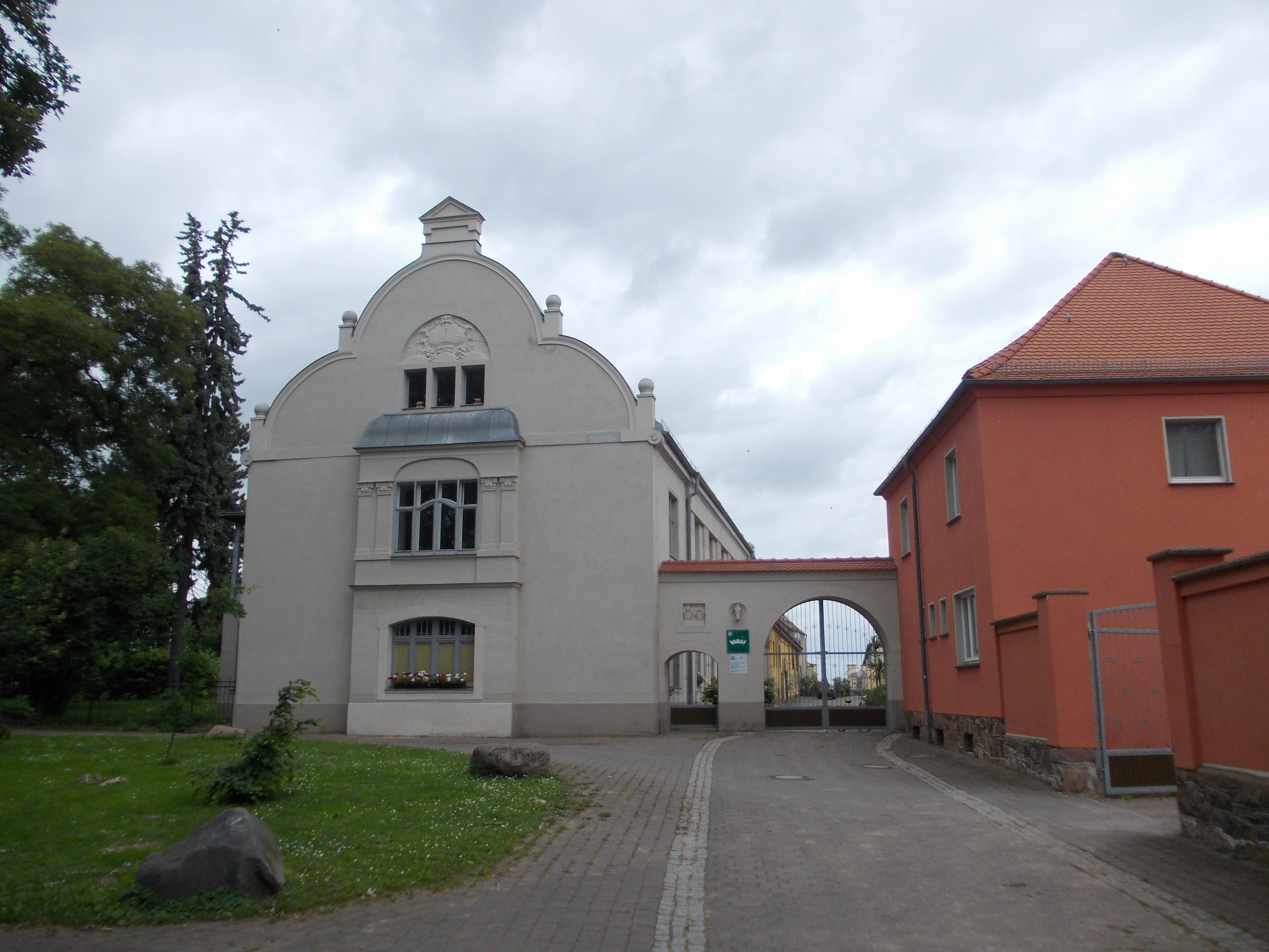 State stud farm of Saxony-Anhalt in Prussendorf (Zörbig, Anhalt-Bitterfeld district)